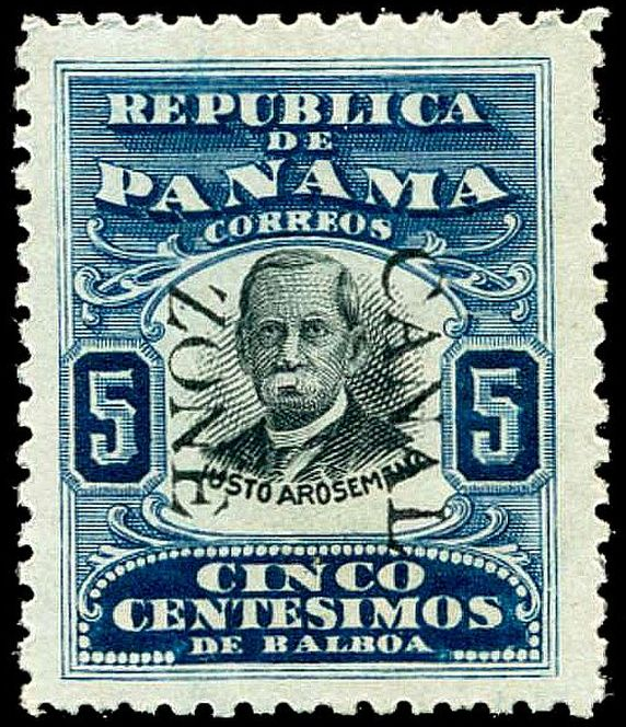 Canal Zone Postage stamp, Issue of 1906